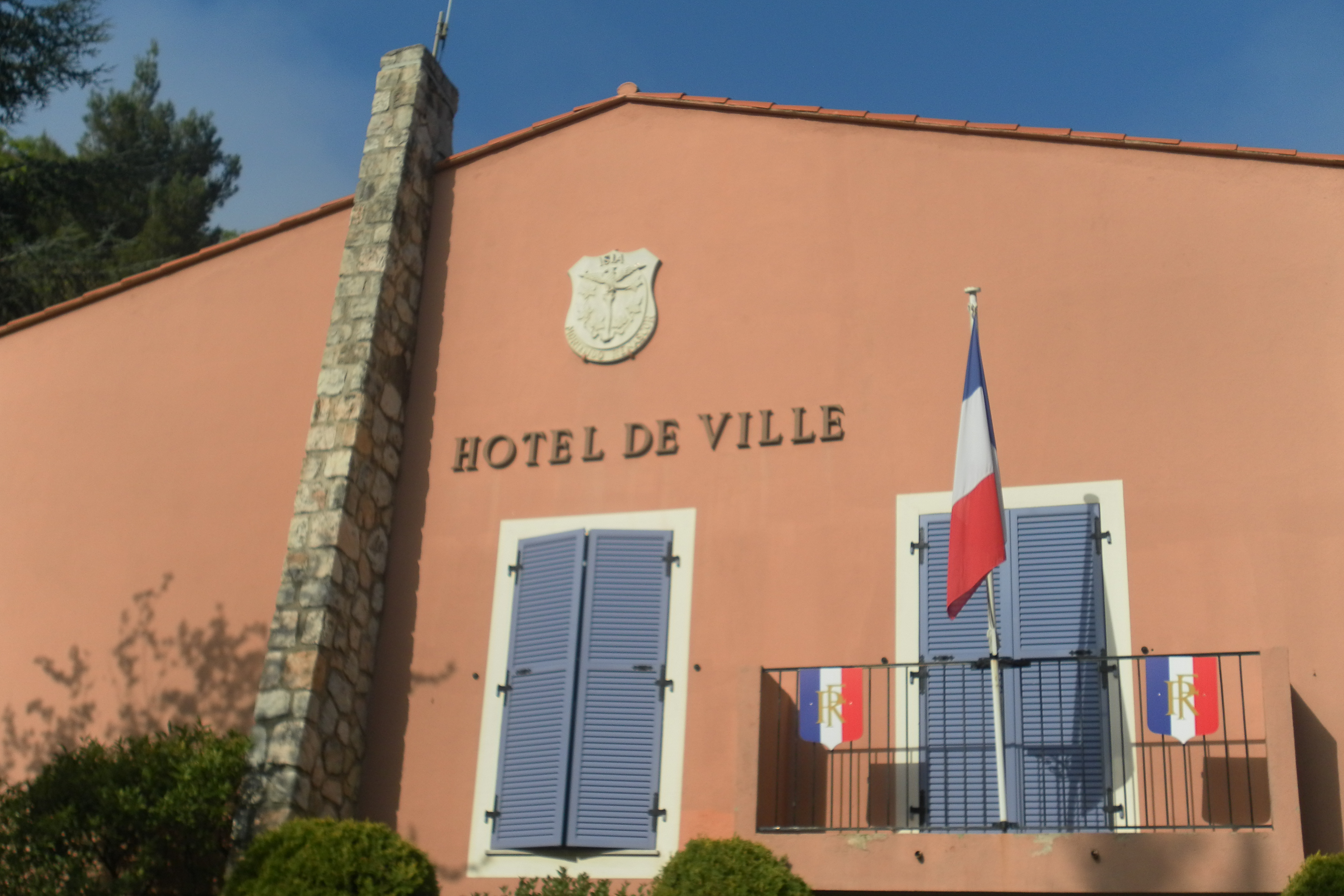 Town Hall of Èze (France)